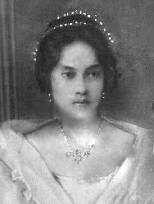 Josefina Balderas Madrid, grand daughter of Capitan Don Martin Balderas (Gobernadorcillo of Banate, Iloilo) and Doña Apolonia Baviera y Barte (granddaughter of Don Felix Baviera, the first Gobernadorcillo of Banate in 1837, and his wife Doña Rita). Josefina's parents were Doña Maria Baviera Balderas (firstborn of Don Martin Balderas) and Don Marcelo Madrid of Barcelona, Spain (Spanish merchant and, later, Municipal Representative of Banate).[1] The Report of Fray Agapito Lope (Parish Priest of Banate in 1893), done in Cornago, La Rioja (Spain), on 4 August 1911, identifies Don Marcelo Madrid among the "vecinos distinguidos" of the town of Banate.[2] [3] In the context of the colonial rule in municipalities of the Spanish Empire, the phrase "vecinos distinguidos" are attributed to residents to whom the honorific address "Don" and Doña are strictly limited. In the colonial Philippine context, this phrase refers to the Principalía. The authors Schröter and Büschges say: "También en este sector, el uso de las palabras doña y don se limito estrechamente a vecinas y vecinos distinguidos." [4]